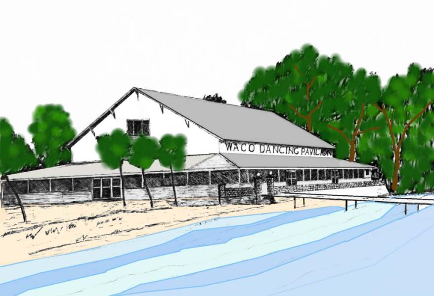 This sketch was created by the user and based on a historical sketch.